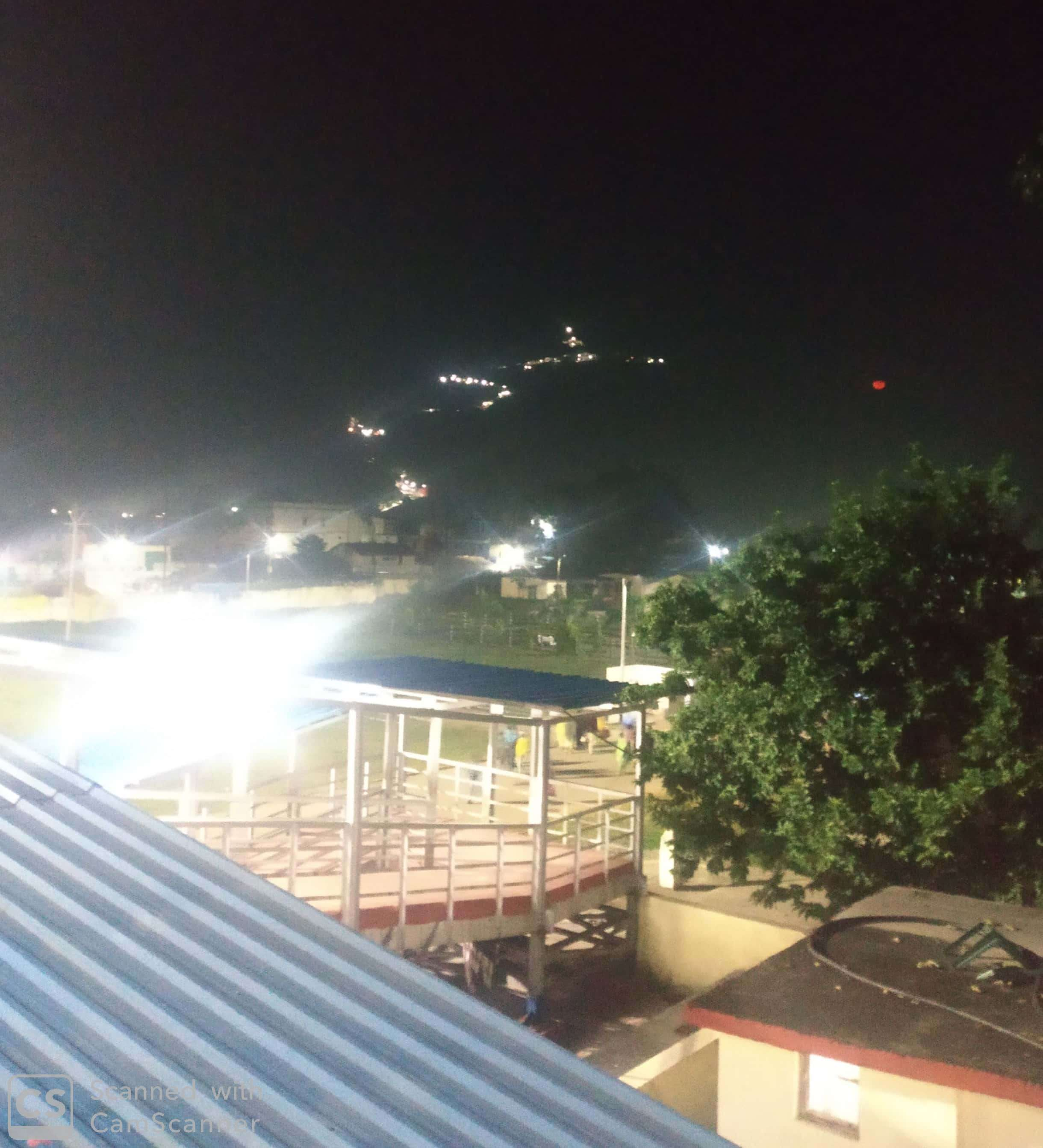 Night view of dongargarh temple from station